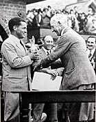 Bobby Jones wins British Open in 1930